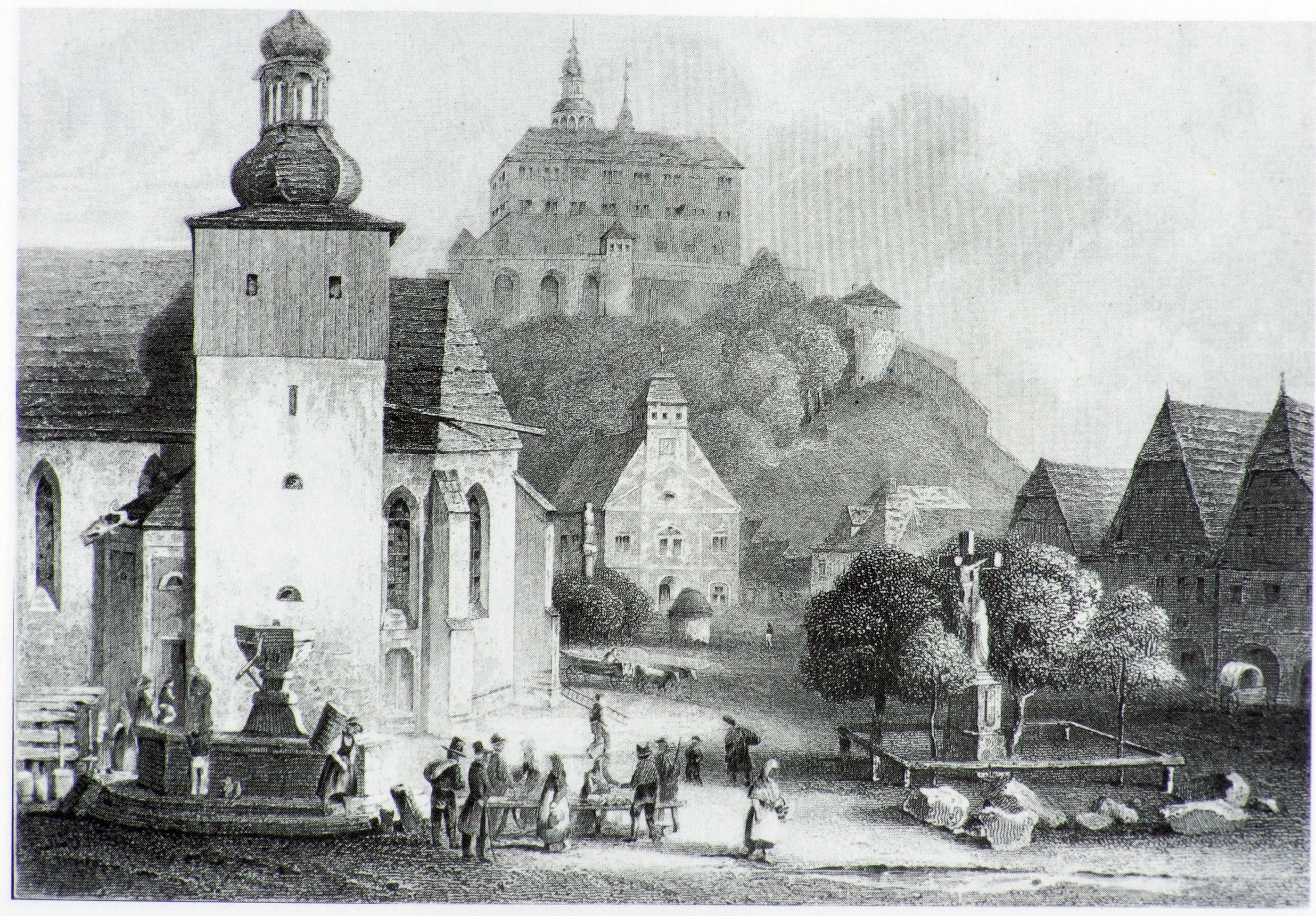 Náchod marketplace